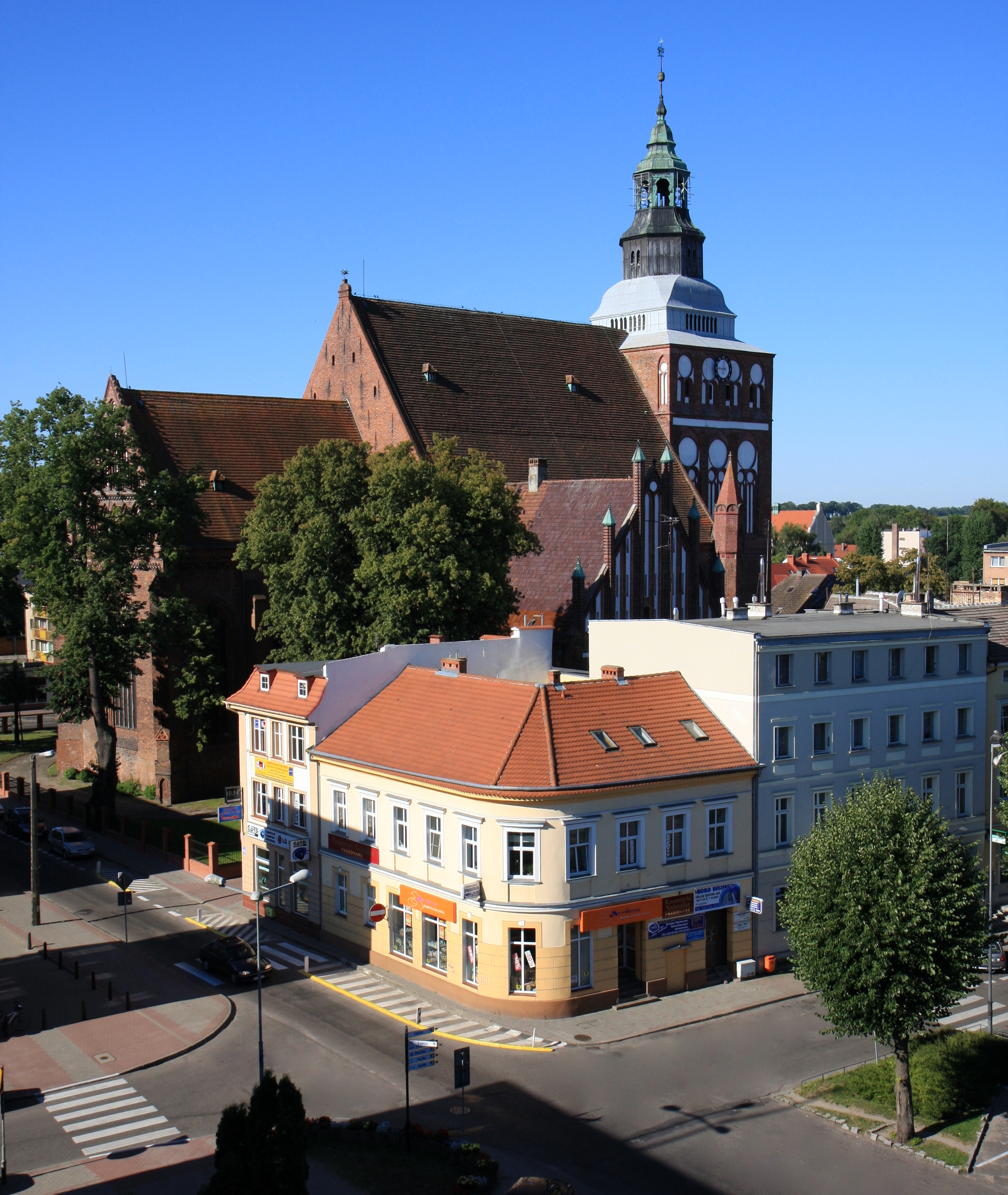 Zwycięstwa Square in Gryfice, Poland